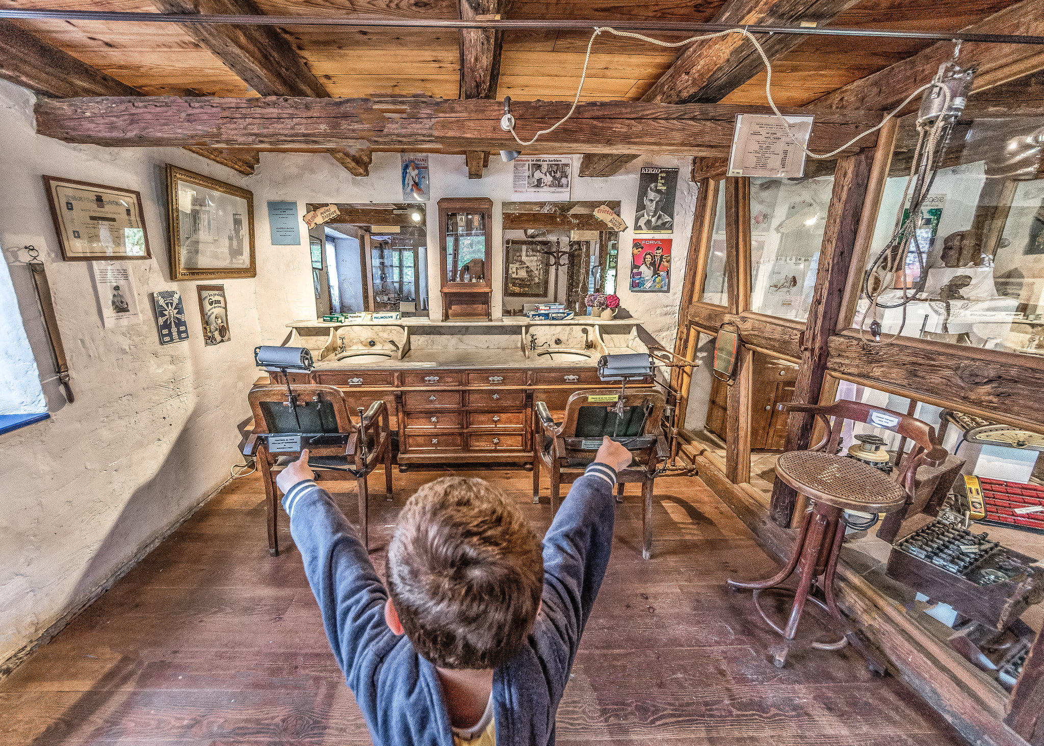 500px provided description: Sous l?Ancien R?gime, le terme de ? barbier ? d?signait diff?rents m?tiers dont les fronti?res se sont peu ? peu ?loign?es : le barbier et le barbier-perruquier ?taient les anc?tres de nos coiffeurs actuels ; le barbier chirurgien ?tait charg? de la petite chirurgie et pouvait effectuer des soins comme les saign?es, la pose de ventouses ou de pansements. Ce n'est qu'en 1691 qu'un ?dit royal fran?ais s?pare chirurgiens et barbiers-perruquiers. Au xixe si?cle, il pouvait ?tre d'usage de proposer au client de raser soit au pouce soit ? la cuill?re : ce dernier objet introduit dans la bouche du client permettait de gonfler la joue et de faciliter ainsi le rasage. . Under the Ancien R?gime, the term "barber" meant different trades whose borders gradually moved away: the barber and barber-perruquier were the ancestors of our present hairdressers; The surgeon barber was in charge of small surgery and could perform such care as bleeding, laying suckers or dressings. It was not until 1691 that a French royal edict separated surgeons and barbers-wigmakers. In the nineteenth century, it could be customary to propose to the customer to shave either with the thumb or with the spoon: this last object introduced into the mouth of the customer made it possible to inflate the cheek and thus facilitate the shaving. [#landscape ,#nature ,#travel ,#tourism ,#beautiful ,#cute ,#love ,#child ,#history ,#france ,#traveler ,#photography ,#auvergne ,#voyage ,#mahe ,#alsace ,#tourisme ,#histoire ,#photooftheday ,#picoftheday ,#ungersheim ,#ecomusee ,#alsacelorraine ,#liveyourdream ,#lookmom ,#manalyss ,#hautrhin ,#animatedimages ,#auvergnetourisme ,#alsacetourisme]